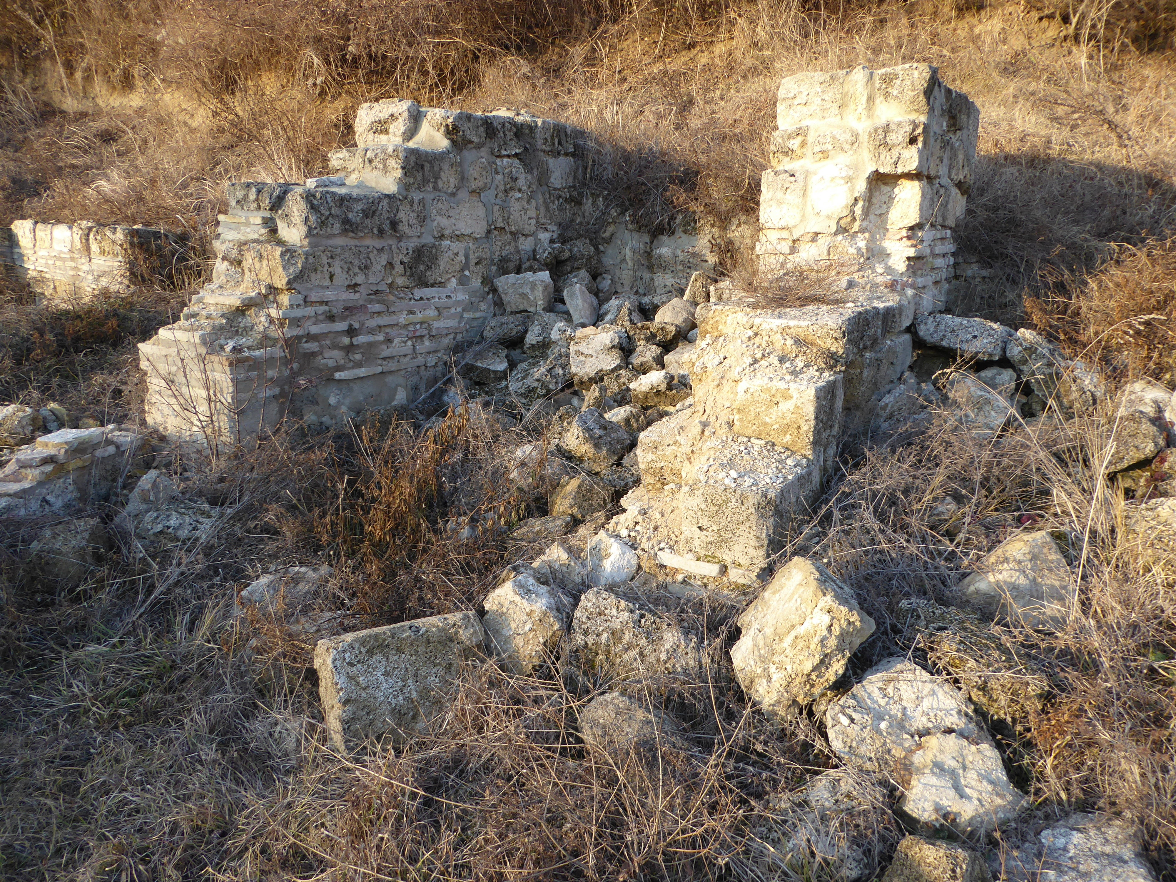 Royal Monastery „Holy Virgin“, Varna, Bulgaria, 9th century